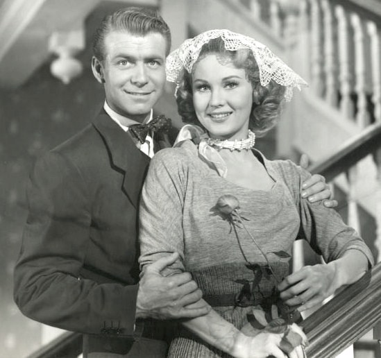 Gene Nelson & Virginia Mayo in She's Working Her Way Through College - publicity still (cropped)